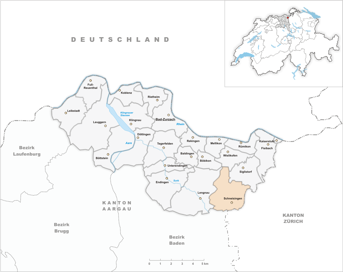 Municipality Schneisingen